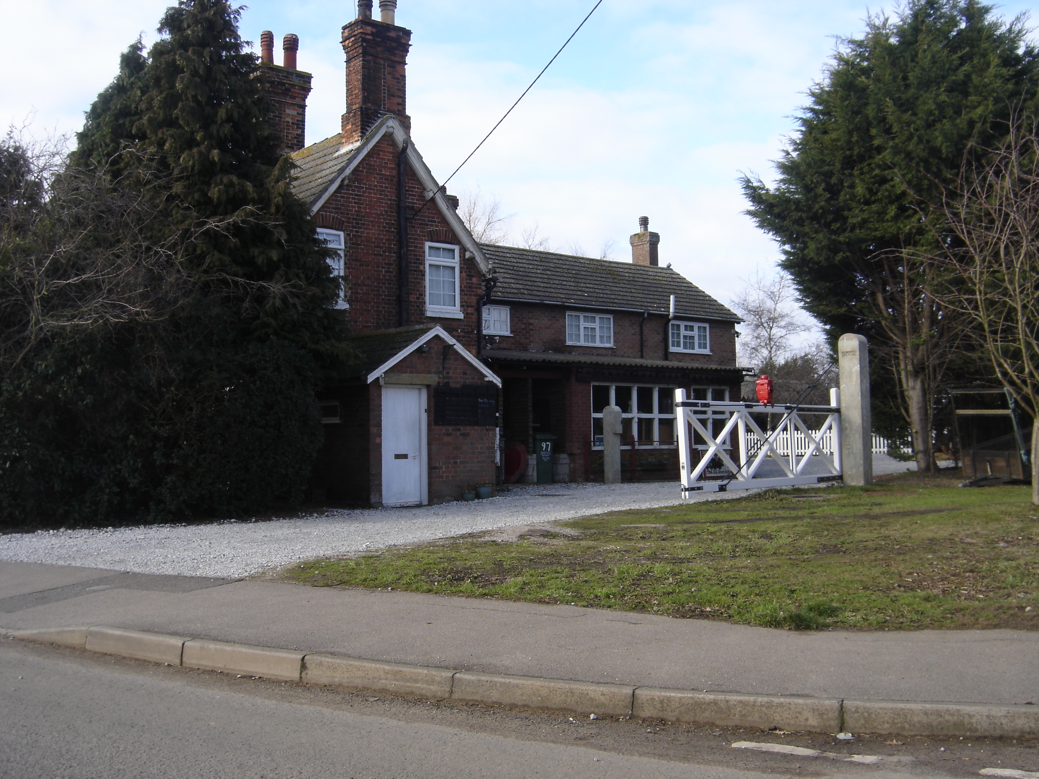 The Old Railway Station at Heacham,Norfolk. The waiting rooms of this old railway station on the disused line between Kings Lynn and Hunstanton,has now been transformed into holiday homes.